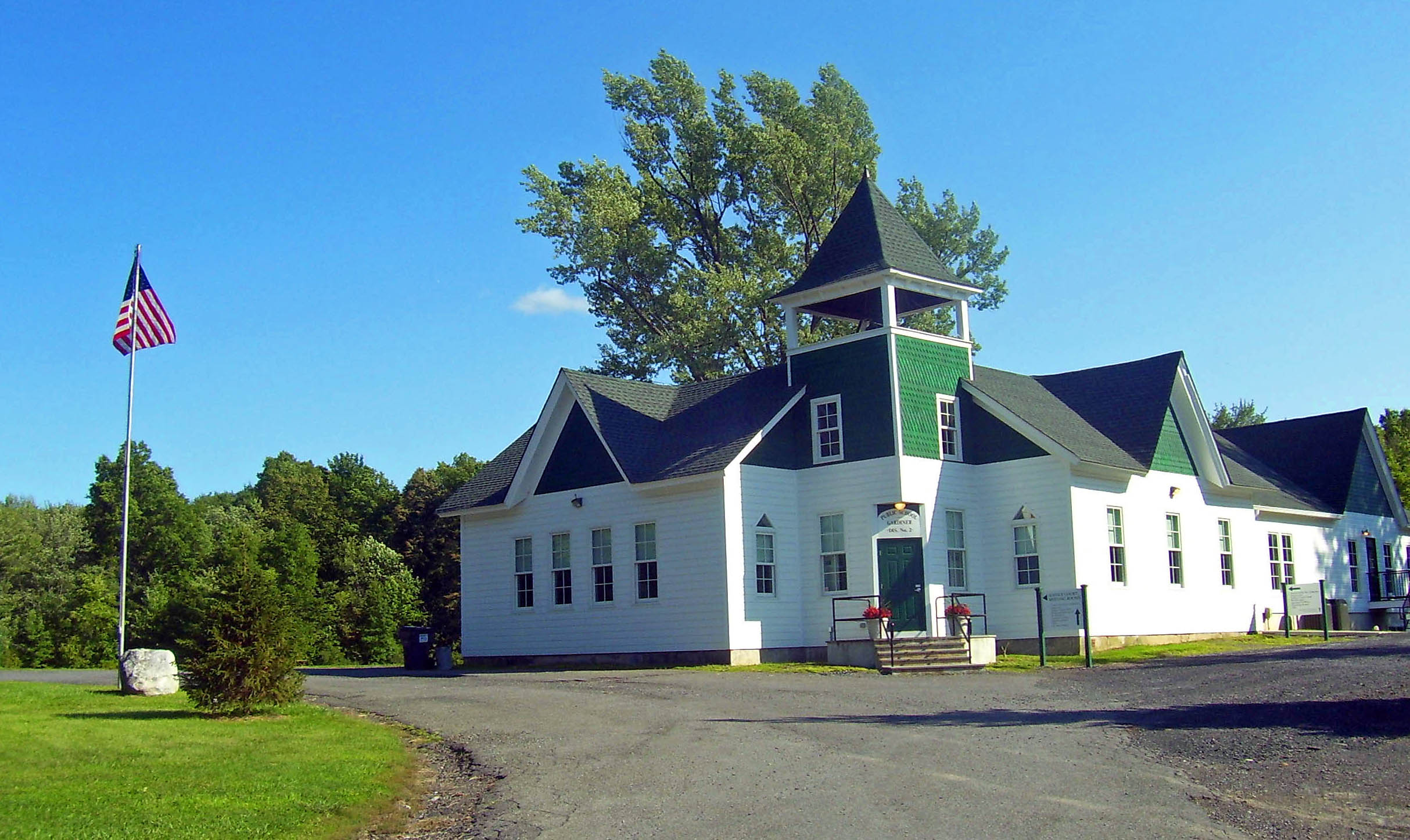 Town hall of Gardiner, NY, USA, formerly a local schoolhouse